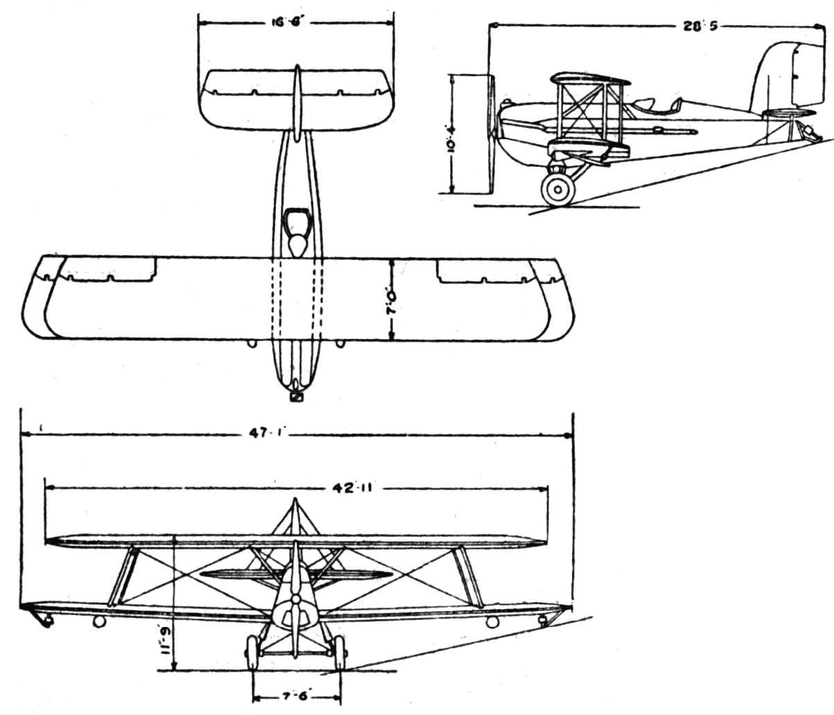 Mercury Senior 3-view drawing from L'Aéronautique March,1927